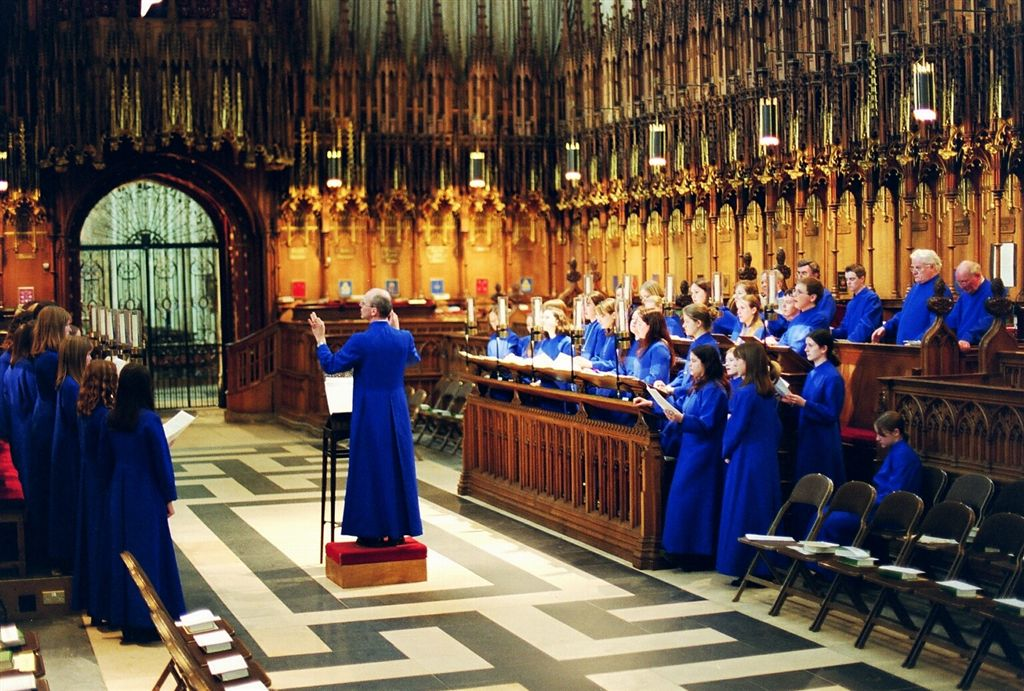 Anglican choir music – a guest choir practices for evensong in York Minster